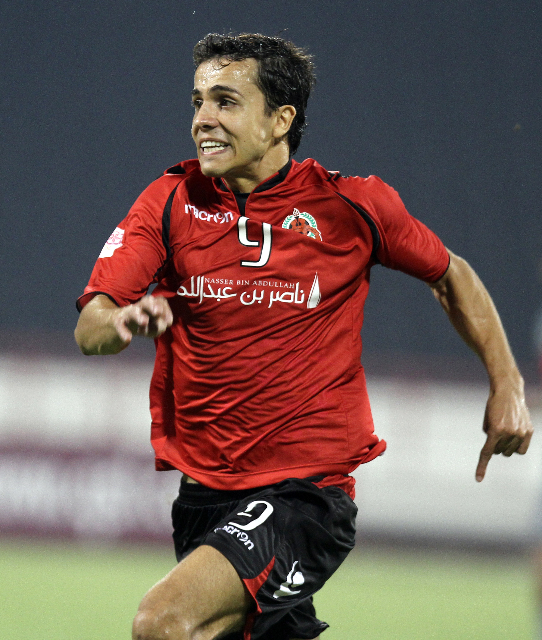 Al Rayyan's Brazilian professional Nilmar in action during the Qatar Stars League. Picture by Vinod Divakaran